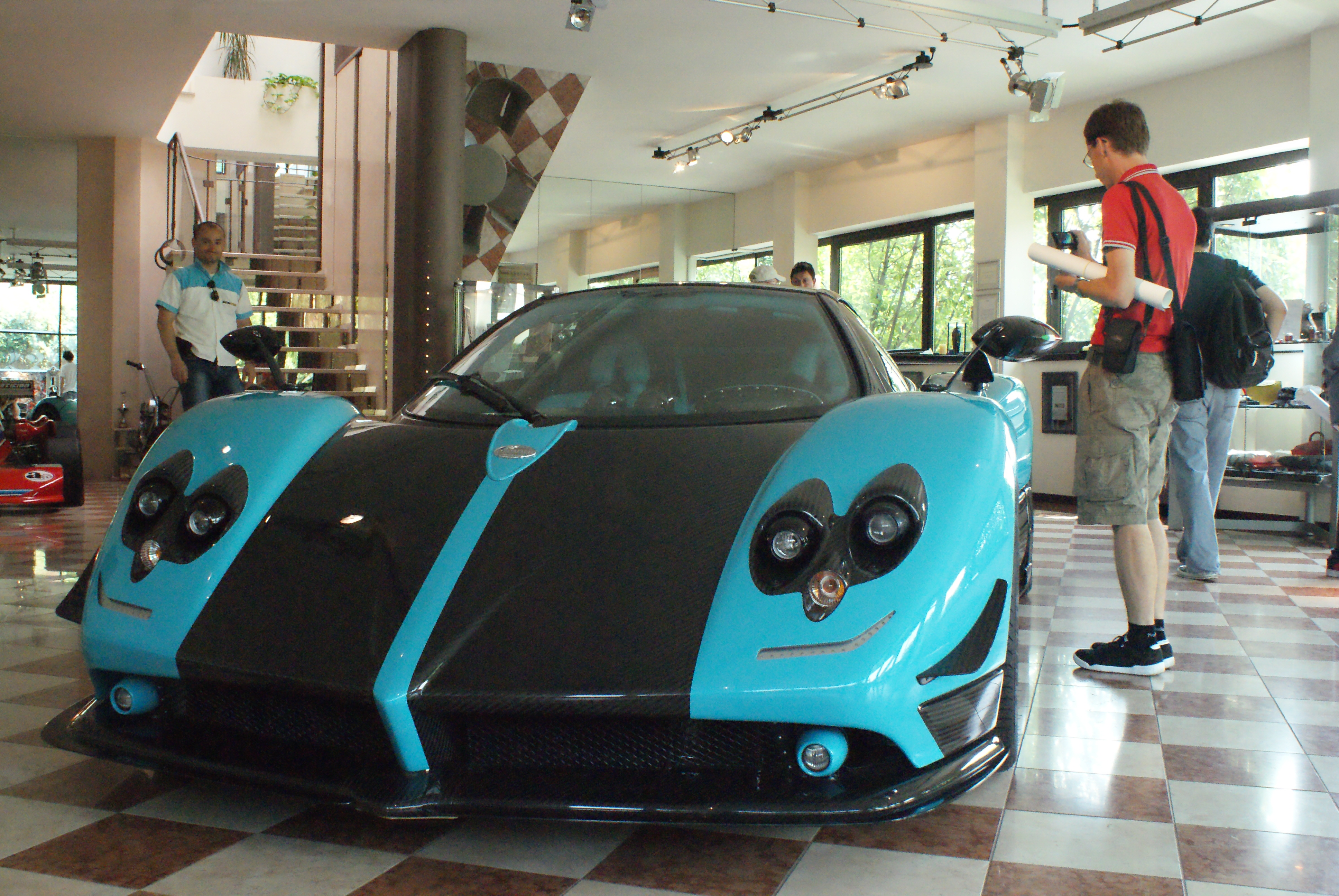 The front of the Pagani Zonda Uno at the Pagani Factory in San Cesario sul Panaro Modena.